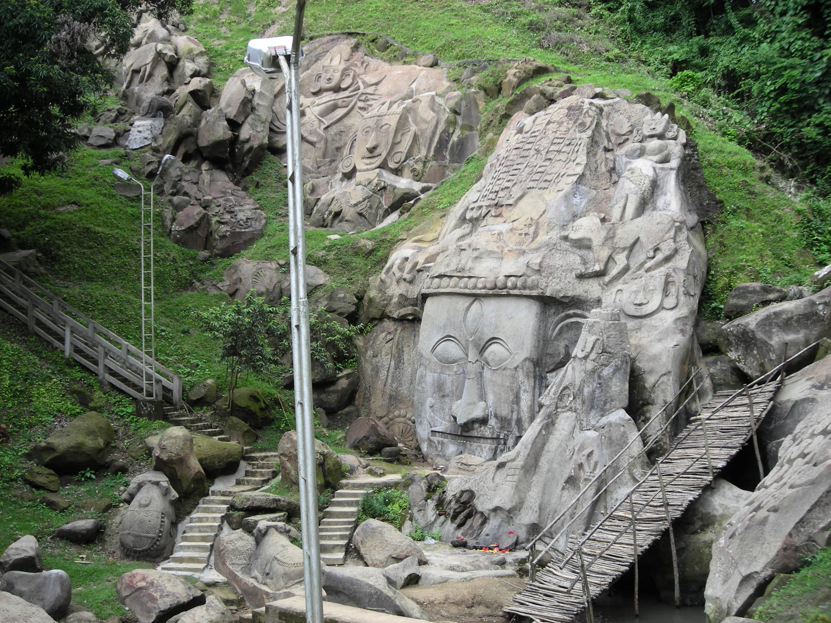 11th century rock cut,bas-relief sculptures dedicated to Lord Shiva